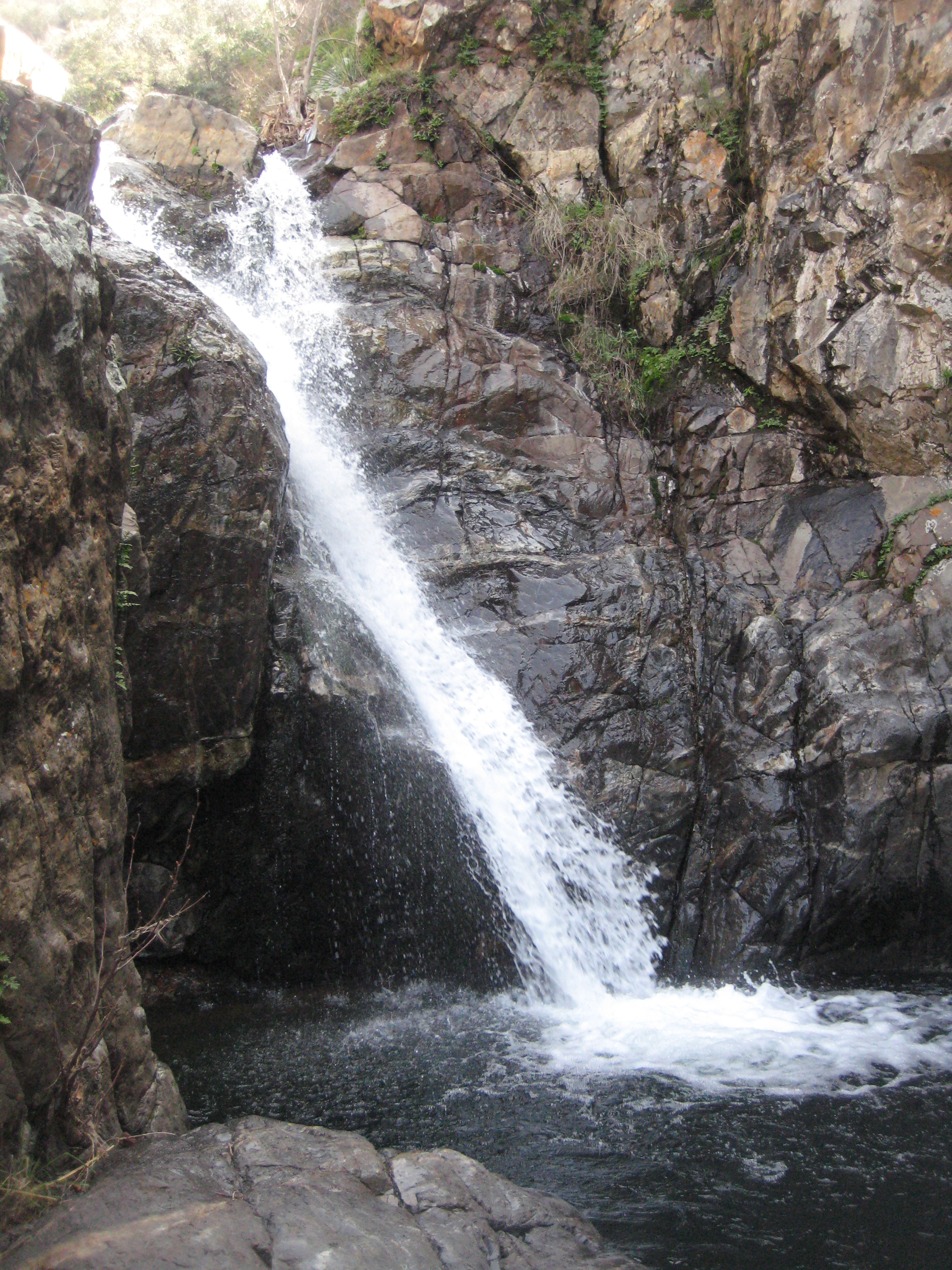 Upper falls is 25 feet with a 10 to 12 foot deep pool